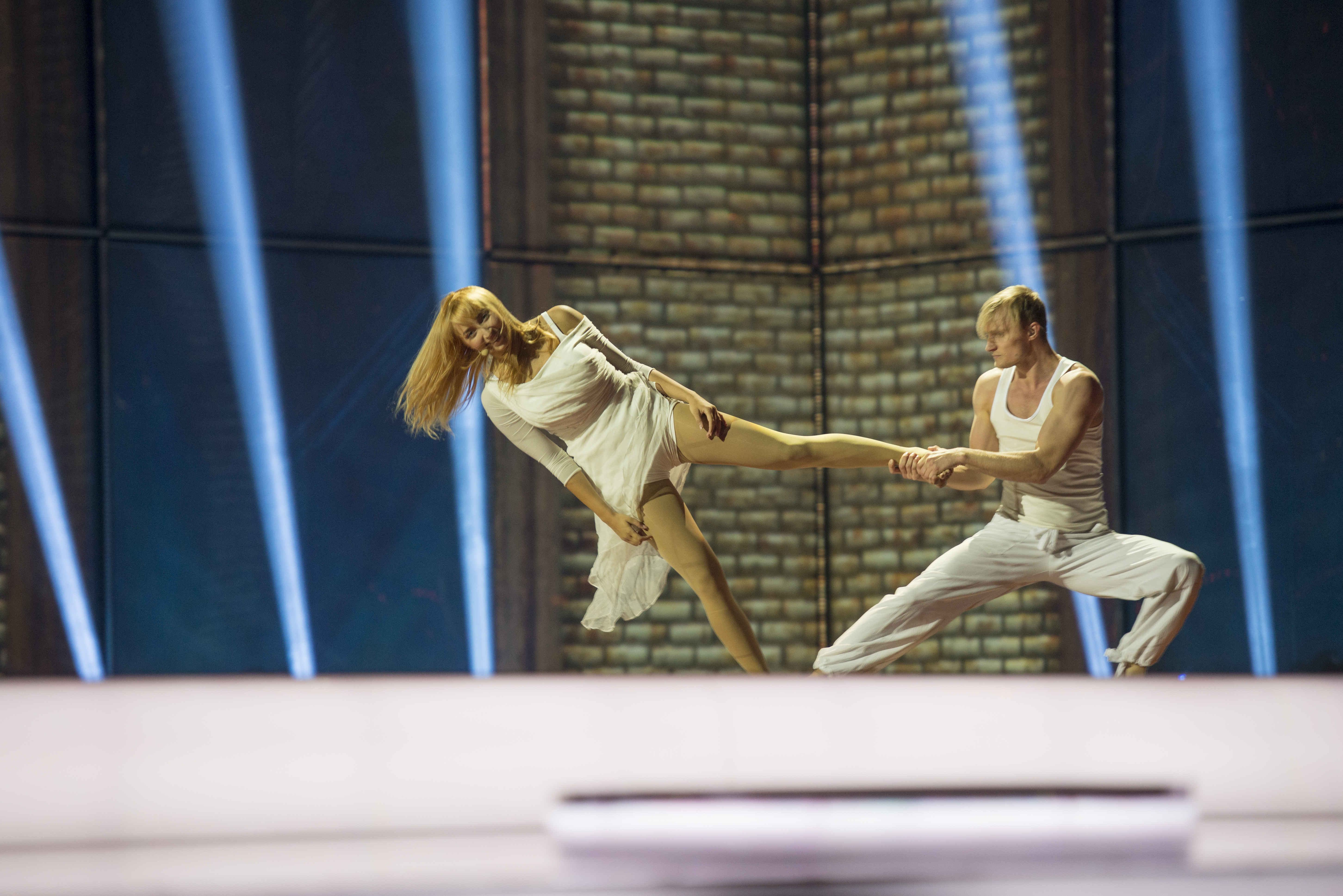 Tanja Mihhailova representing Estonia with the song "Amazing" during the first dress rehearsal of the first semi final of the Eurovision Song Contest 2014 Copenhagen. (Help translate this text)